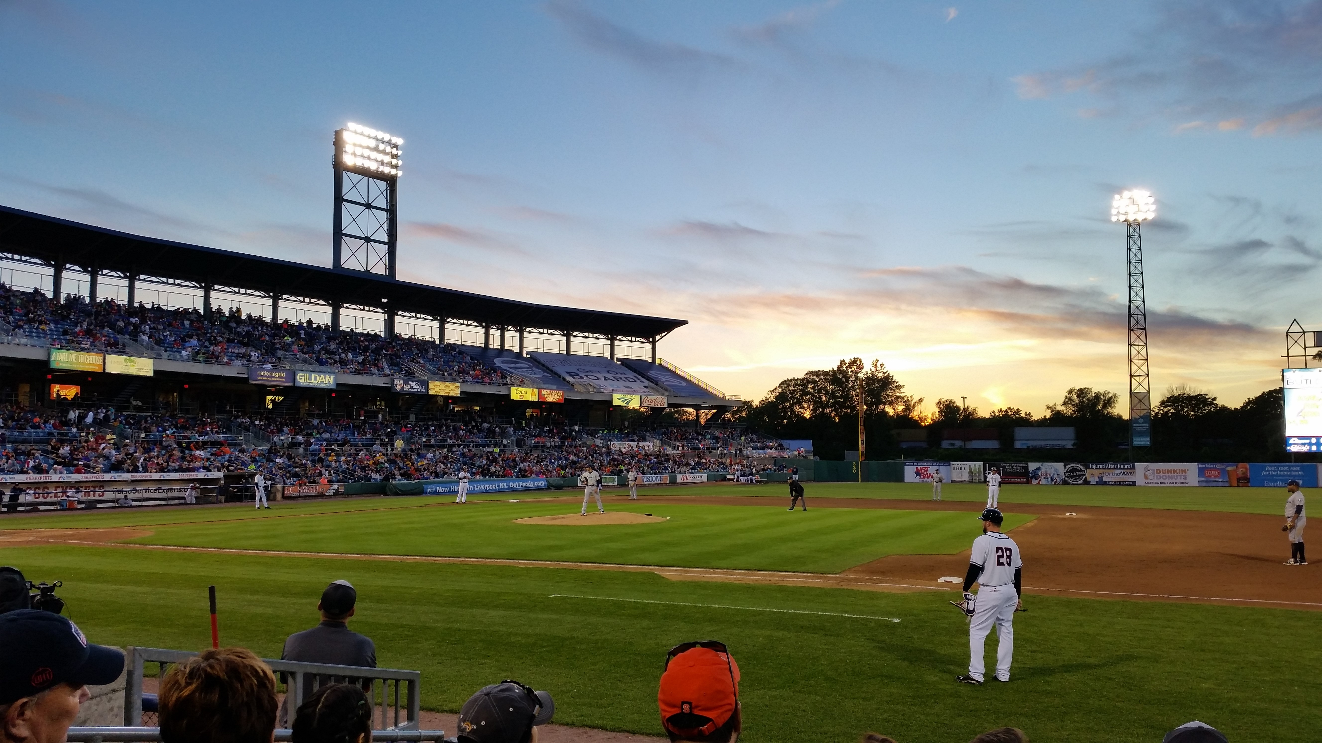 Syracuse Chiefs vs. Columbus Clippers, NBT Bank Stadium, June 3, 2017